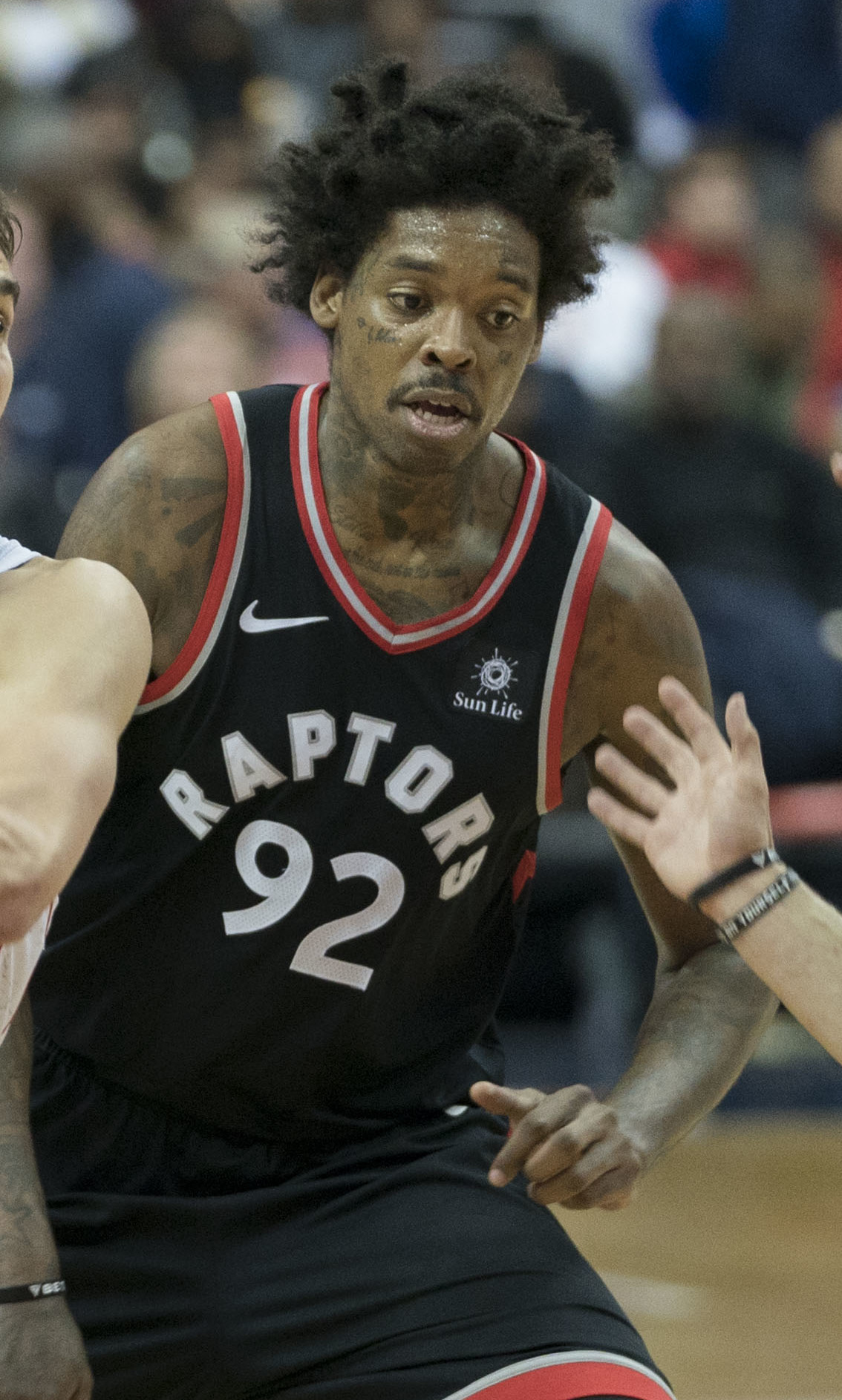 Raptors at Wizards 3/2/18